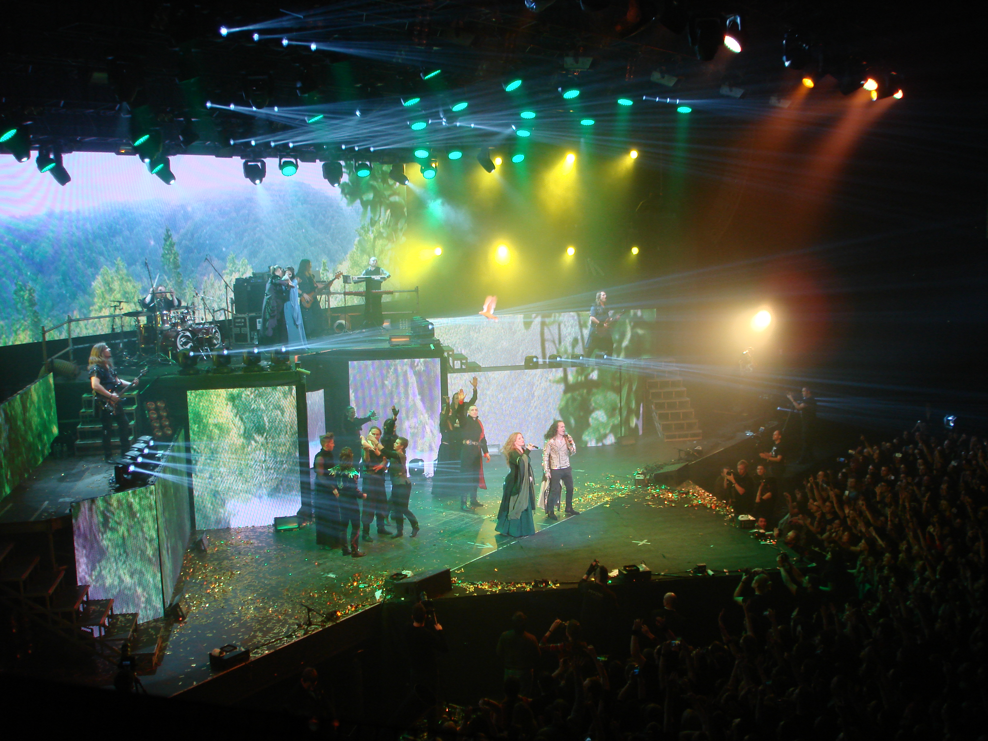 Evgeny Egorov as gold-dragon Giltias in metal-show "The Legend of Xentaron", Moscow, 23.02.2018